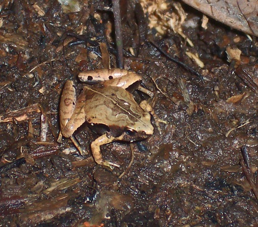 Microhyla achatina from Darmaga, Bogor, West Java, Indonesia